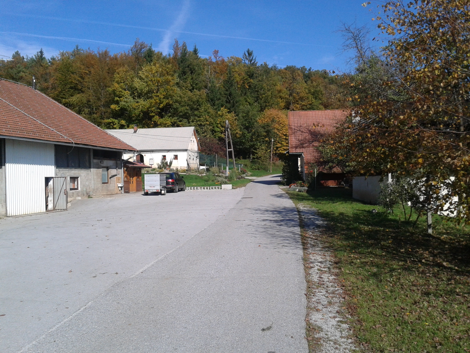 Pečice, a village in the Municipality of Litija, southeastern Slovenia.